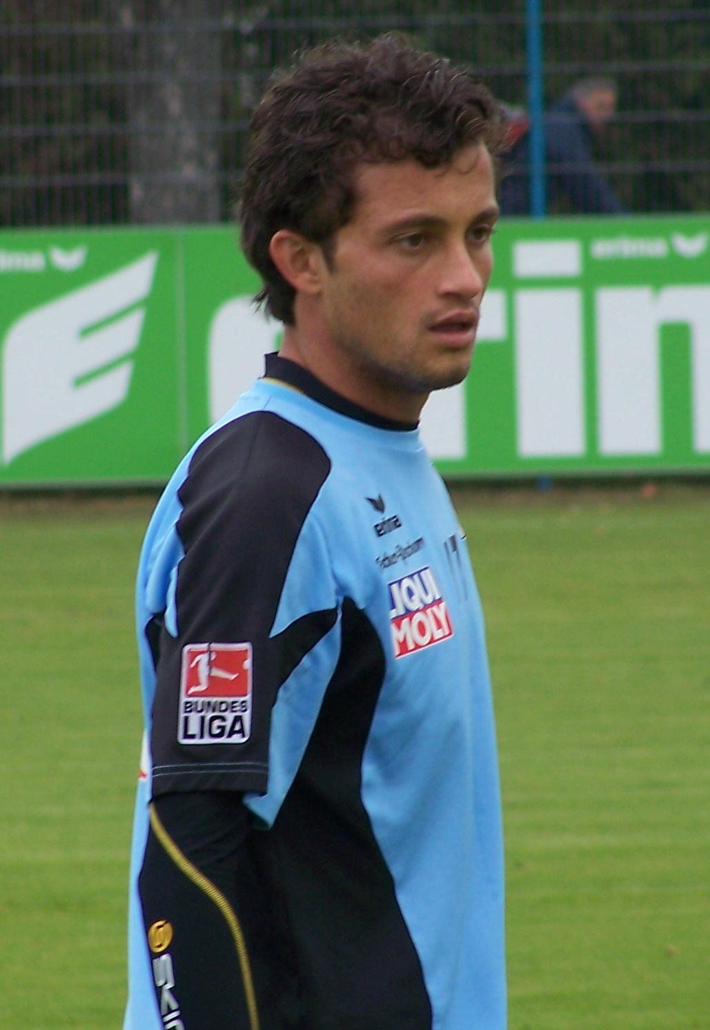 Charis Pappas, 1860 munich, training